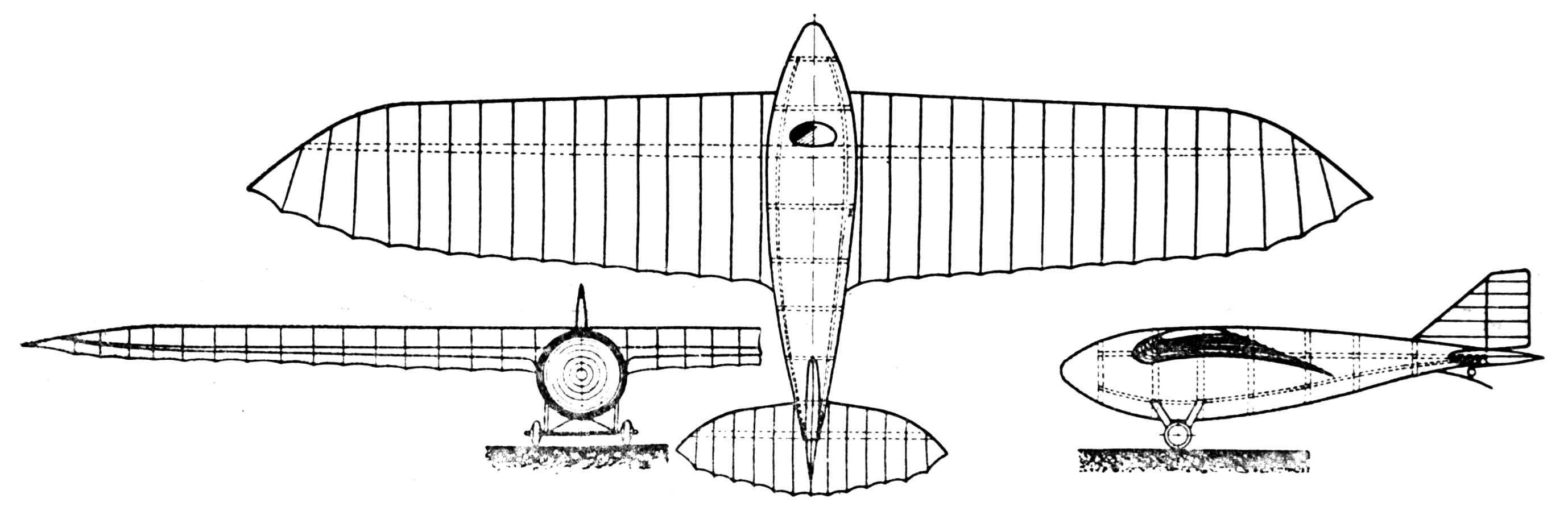 Dewoitine P-1 3-view drawing from L'Aerophile October,1922